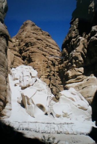 Sandstone-sculpture by Christian W. Staudinger in Closed Canyon near Ain Hudra in Sina, titled Staudingerrocks